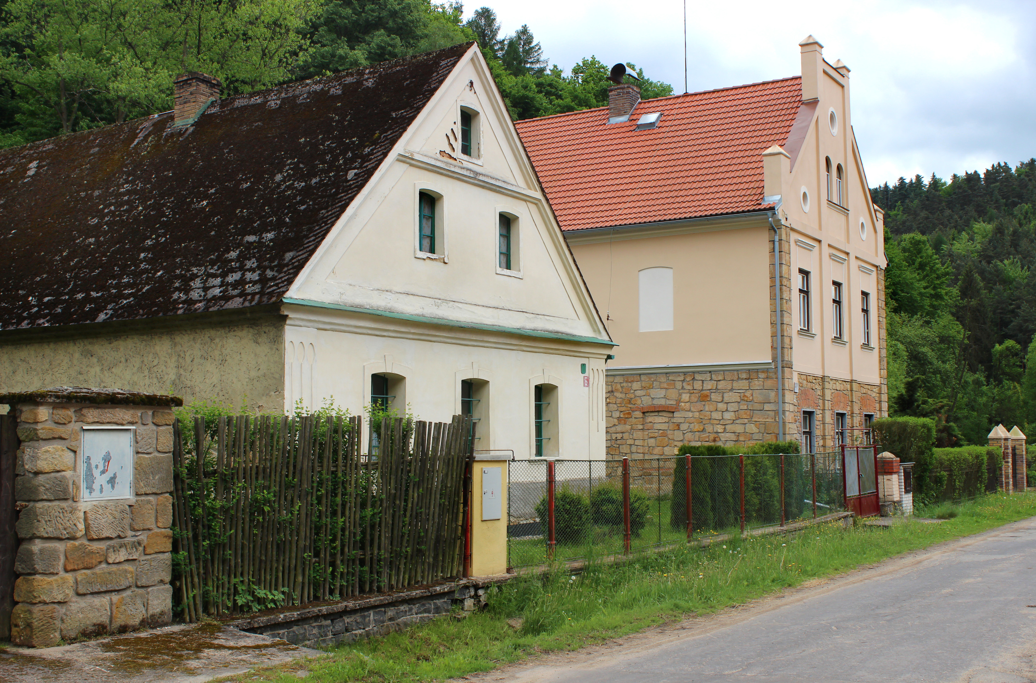 South part of Osinalice, part of Medonosy municipality, Czech Republic